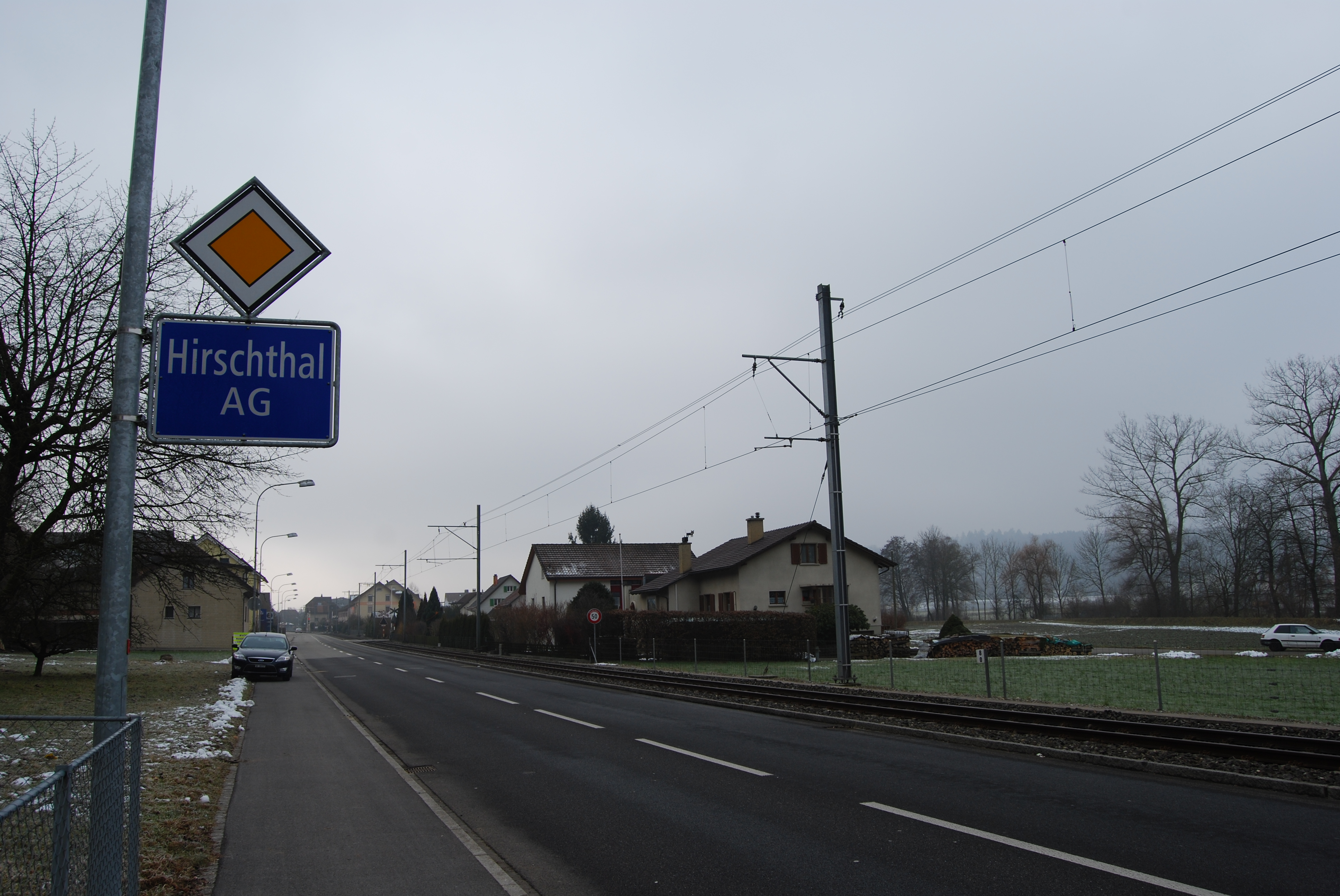 Hirschthal, canton of Aargau, Switzerland